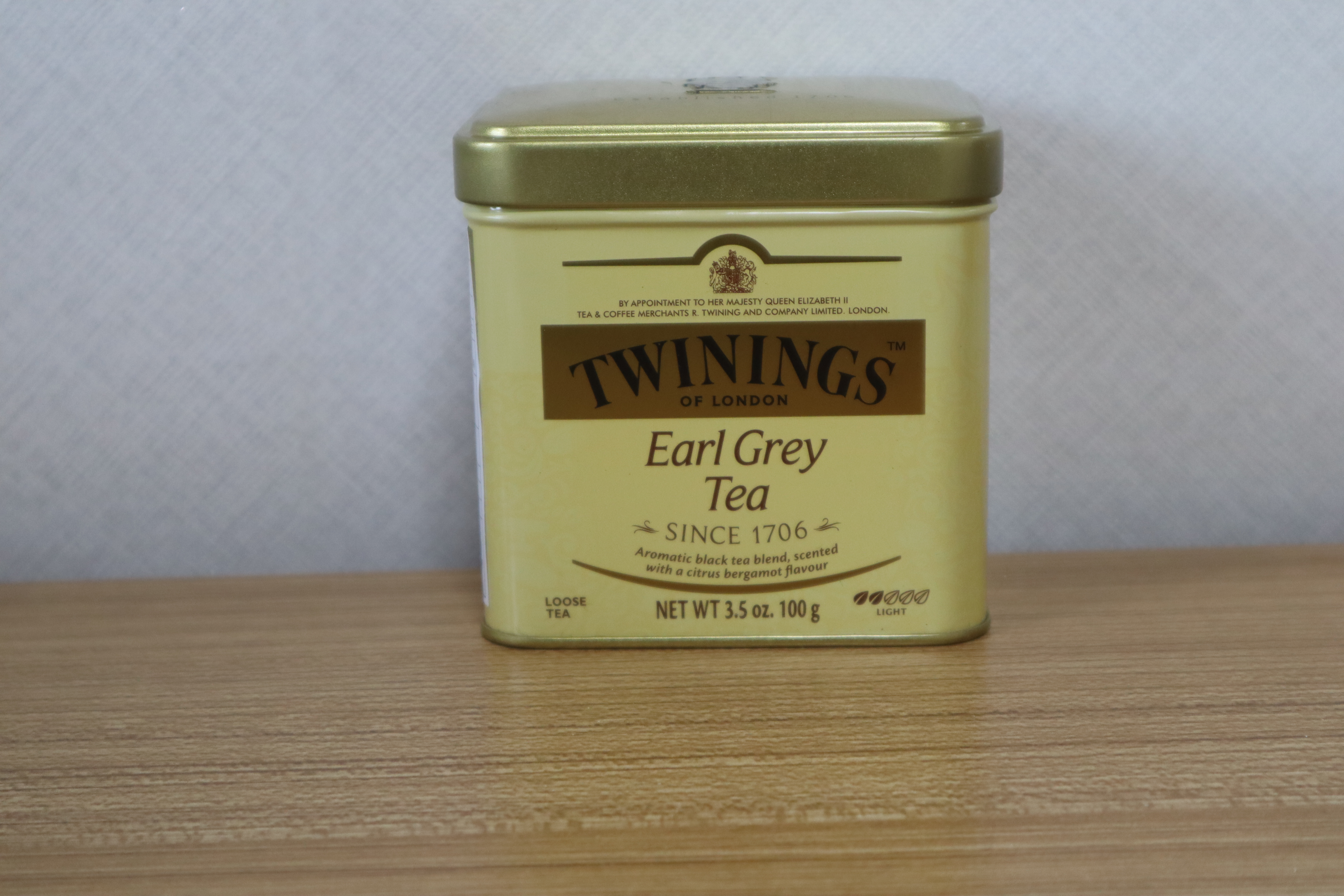 Earl grey tea